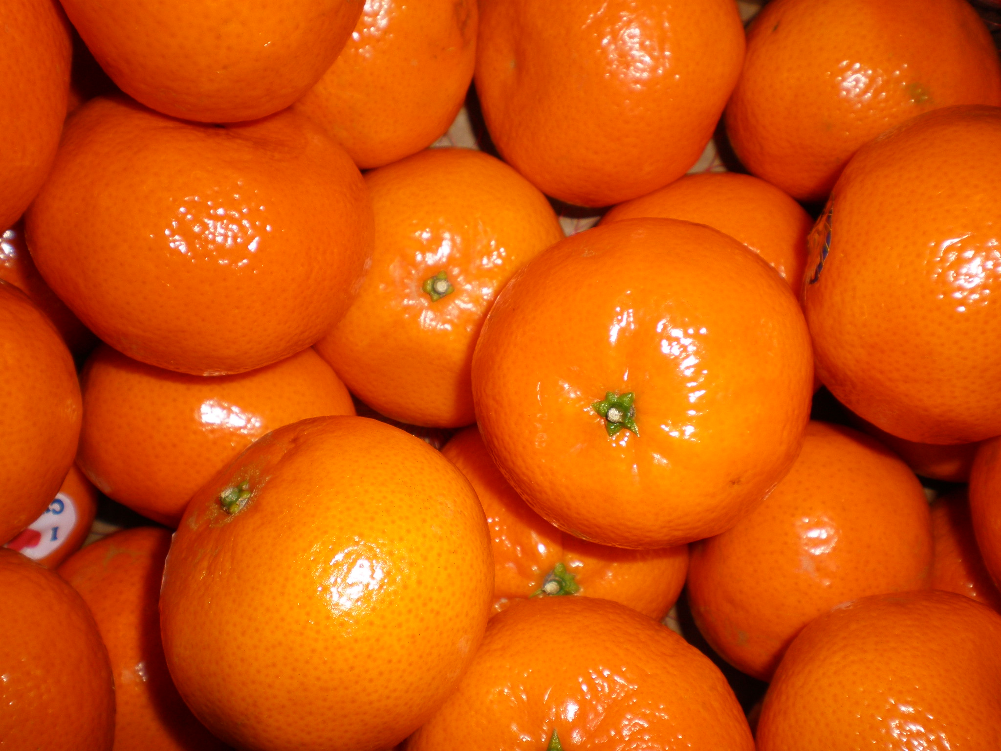 California mandarins or clementines Template:Which?